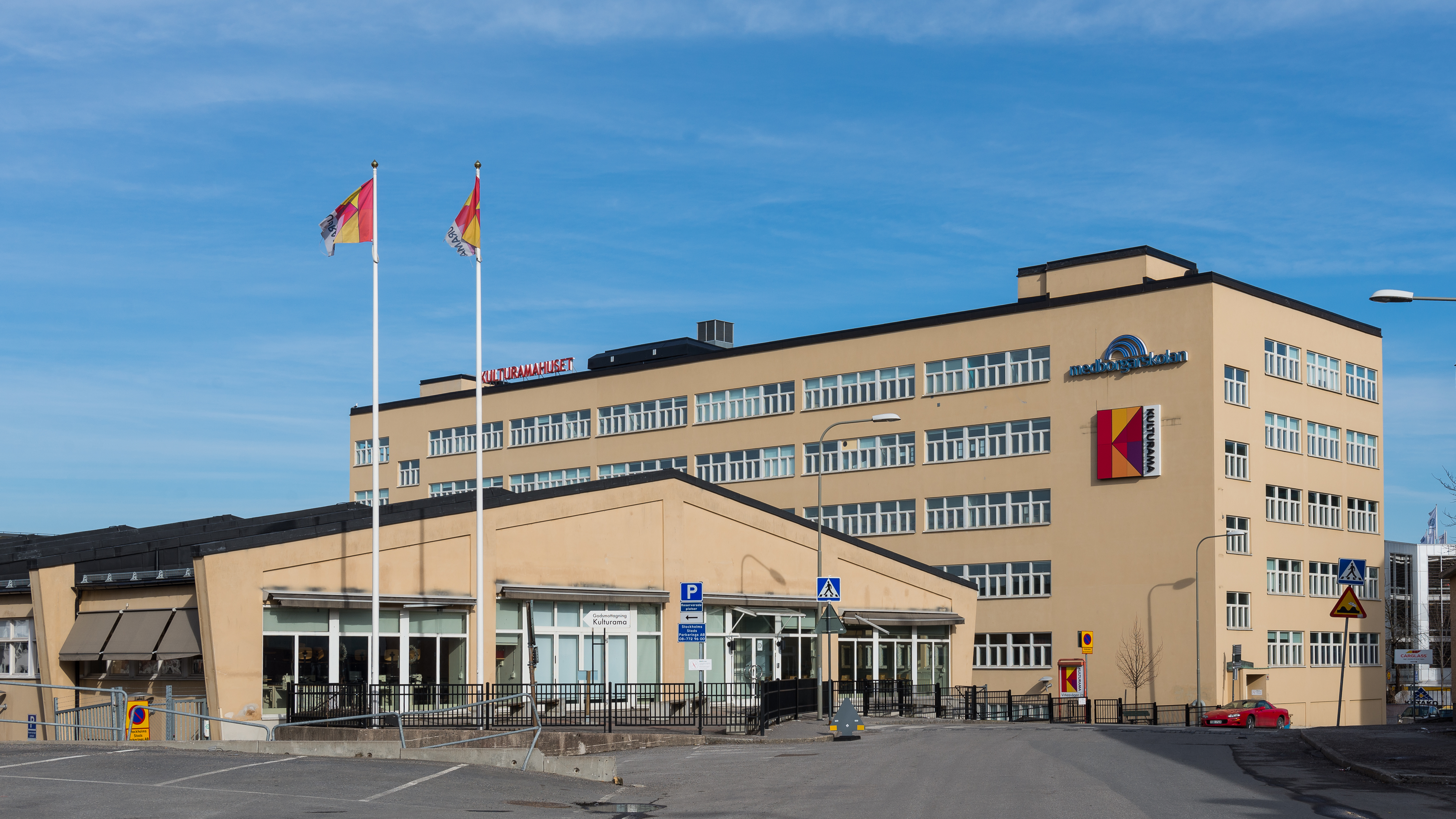 Kulturamahuset (the Kulturama building), Södra Hammarbyhamnen, Stockholm. Former Osram lamp factory